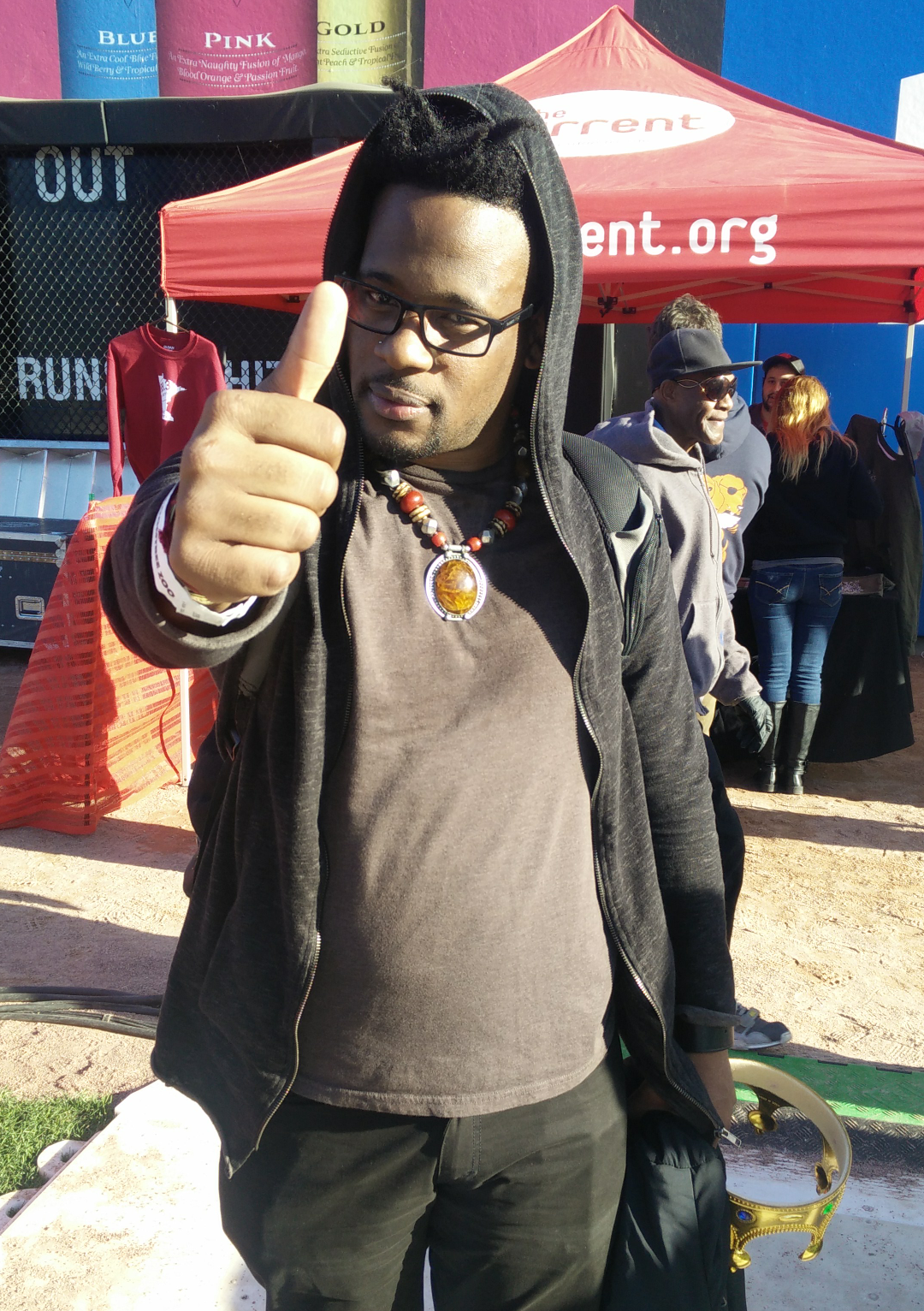 Open Mike Eagle after performing at DOOMTREE Zoo in Saint Paul.